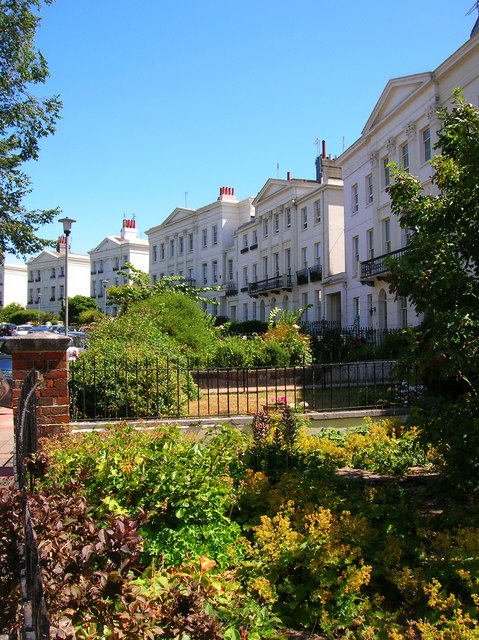 Montpelier Crescent (Southern side) Continue eastwards along Windlesham Avenue until you reach a crossroads with the B2122. Head north until you reach Montpelier Crescent. Built between 1843-47 by Amon Henry Wilds on the site of an old cricket pitch which once hosted Sussex versus English Gentlemen XI. The entire crescent is listed. Click on the link to take you to the next page.